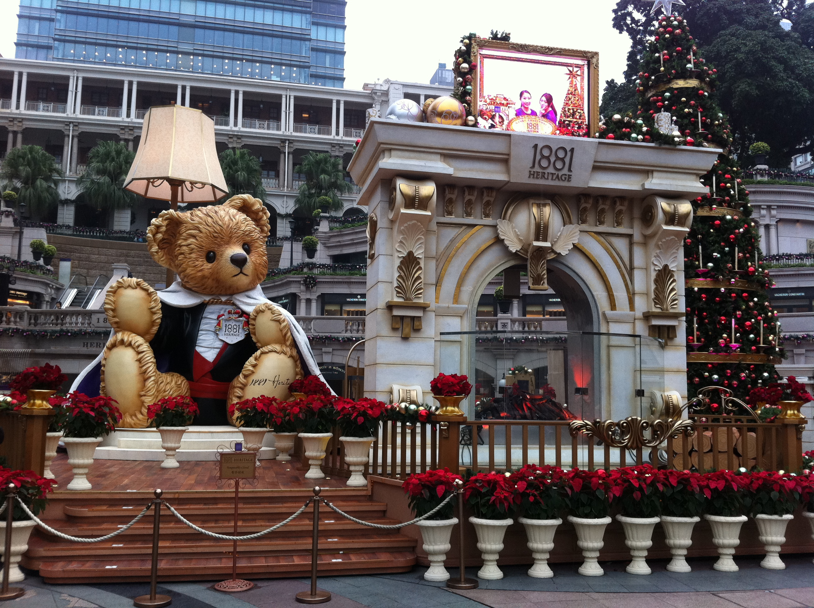 尖沙咀 zh:1881 Heritage, Tsim Sha Tsui, Hong Kong